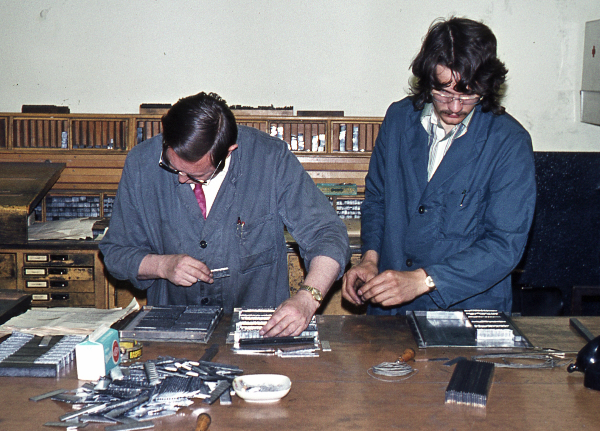 Typsetters